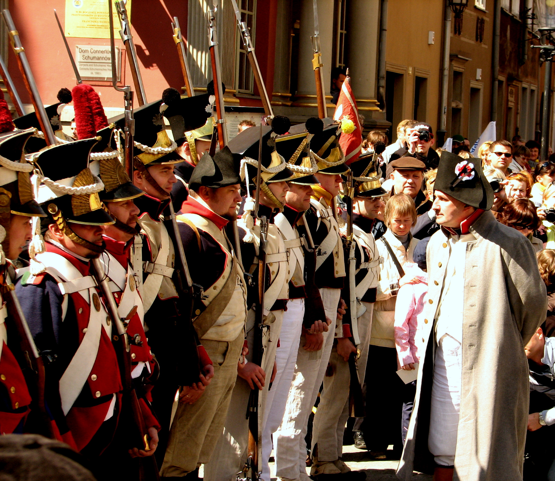 Reenactment of the entry of Napoleon to Gdańsk after siege.